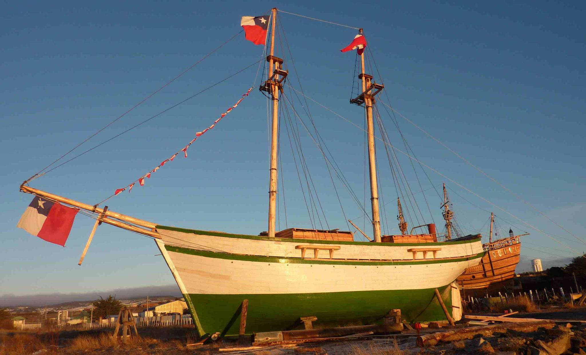 The Schooner Ancud was the first ship ever sent by Chile to claim soveraignity on the Strait of Magellan and the surrounding territories. This picture was taken in the Nao Victoria Museum in Punta Arenas where a full size replica is on display.